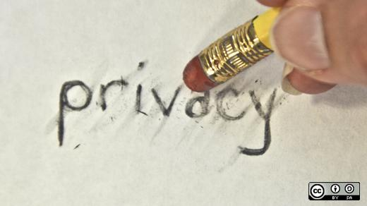 Read the article on Facebook: The privacy saga continues [ WoW. There went your anonymity. A few words about Google Health] Created by Ruth Suehle for